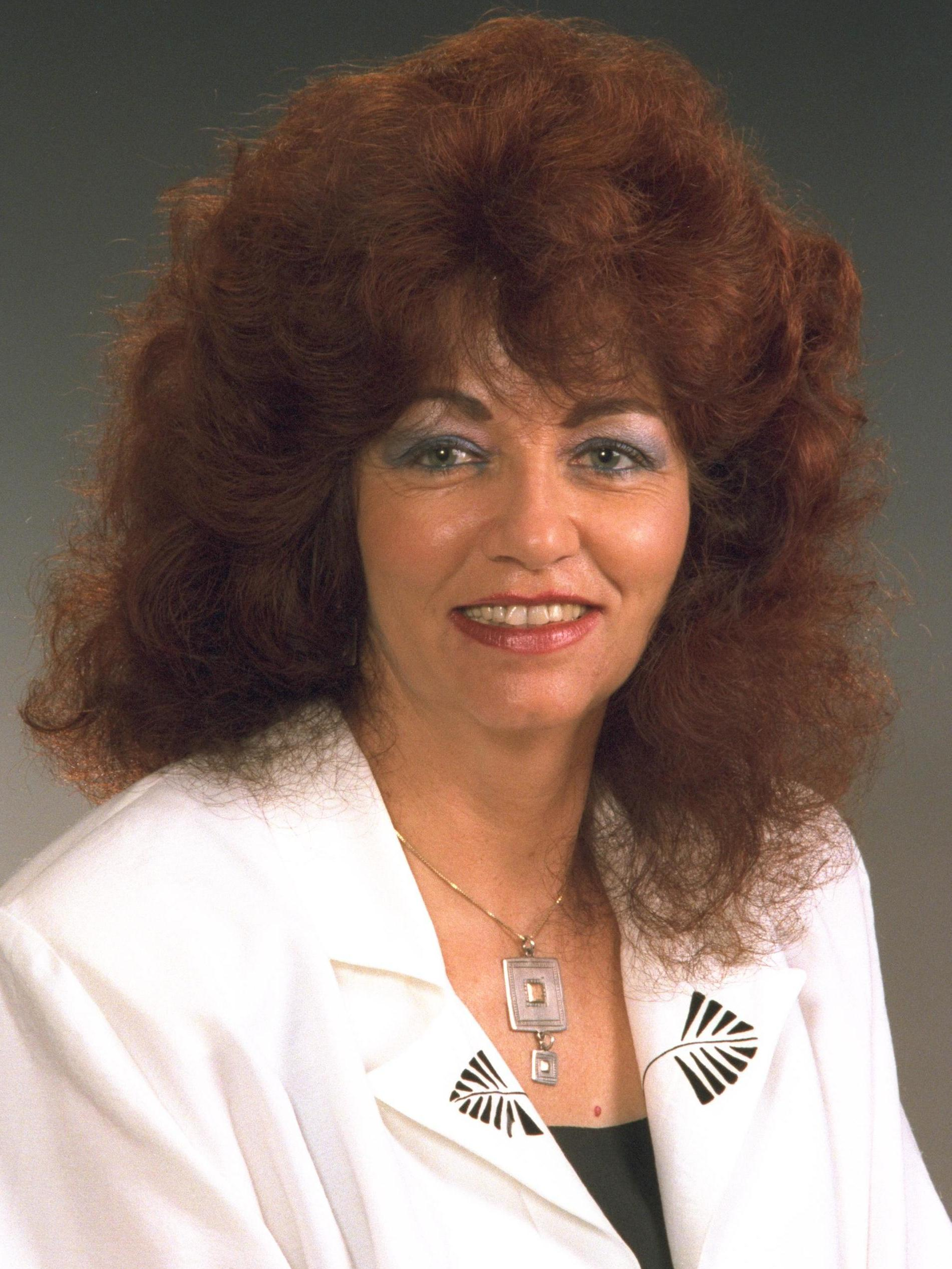 Portrait of Tsomet m.k. Esther Salmovitz.